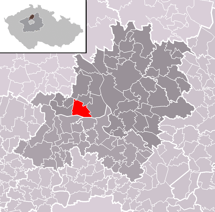 Location of Lužec nad Vltavou municipality within Mělník District and administrative area of Mělník as a Municipality with Extended Competence.